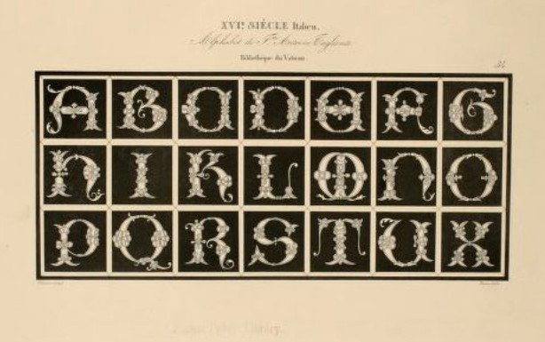 A decorative alphabet by Silvestre (c. 1845)